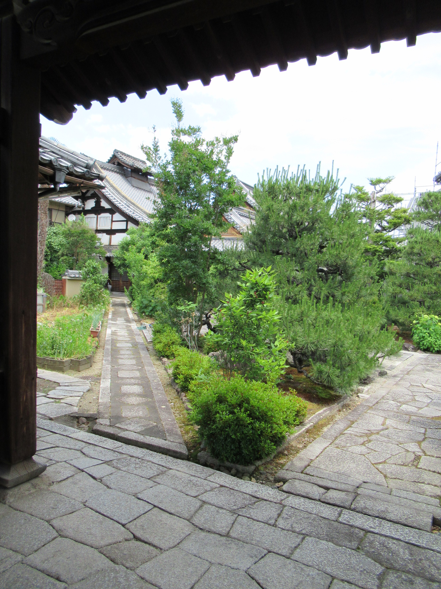 Jūnen-ji, Kamigyo-ku, Kyoto.